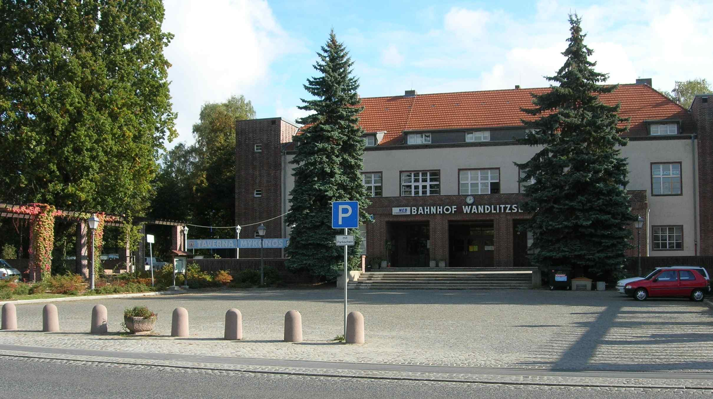 Railway station Wandlitzsee in Wandlitz, Brandenburg, Germany.